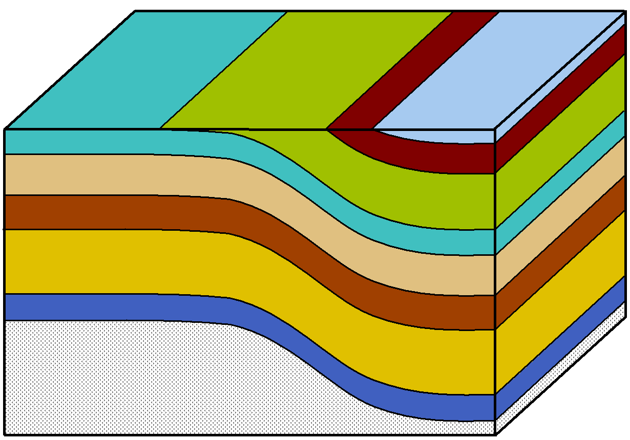 Block diagram of a monocline, for a new monocline article. Self-made.